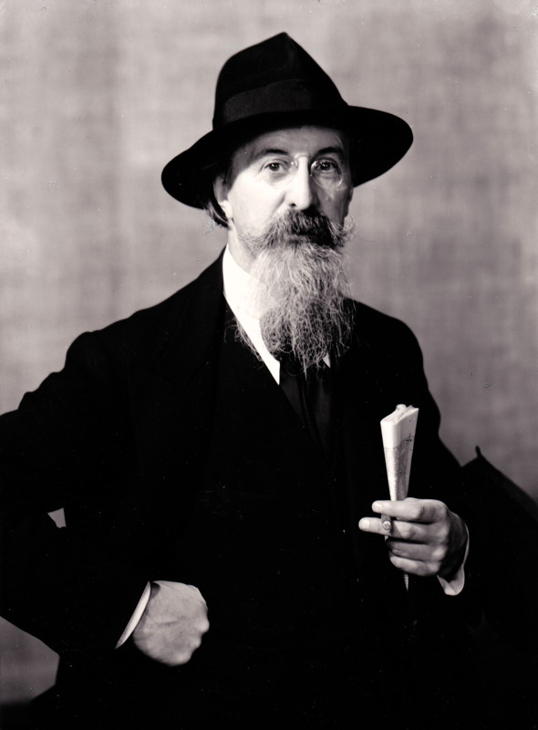 Belgian composer Jef van Hoof (1886-1959)